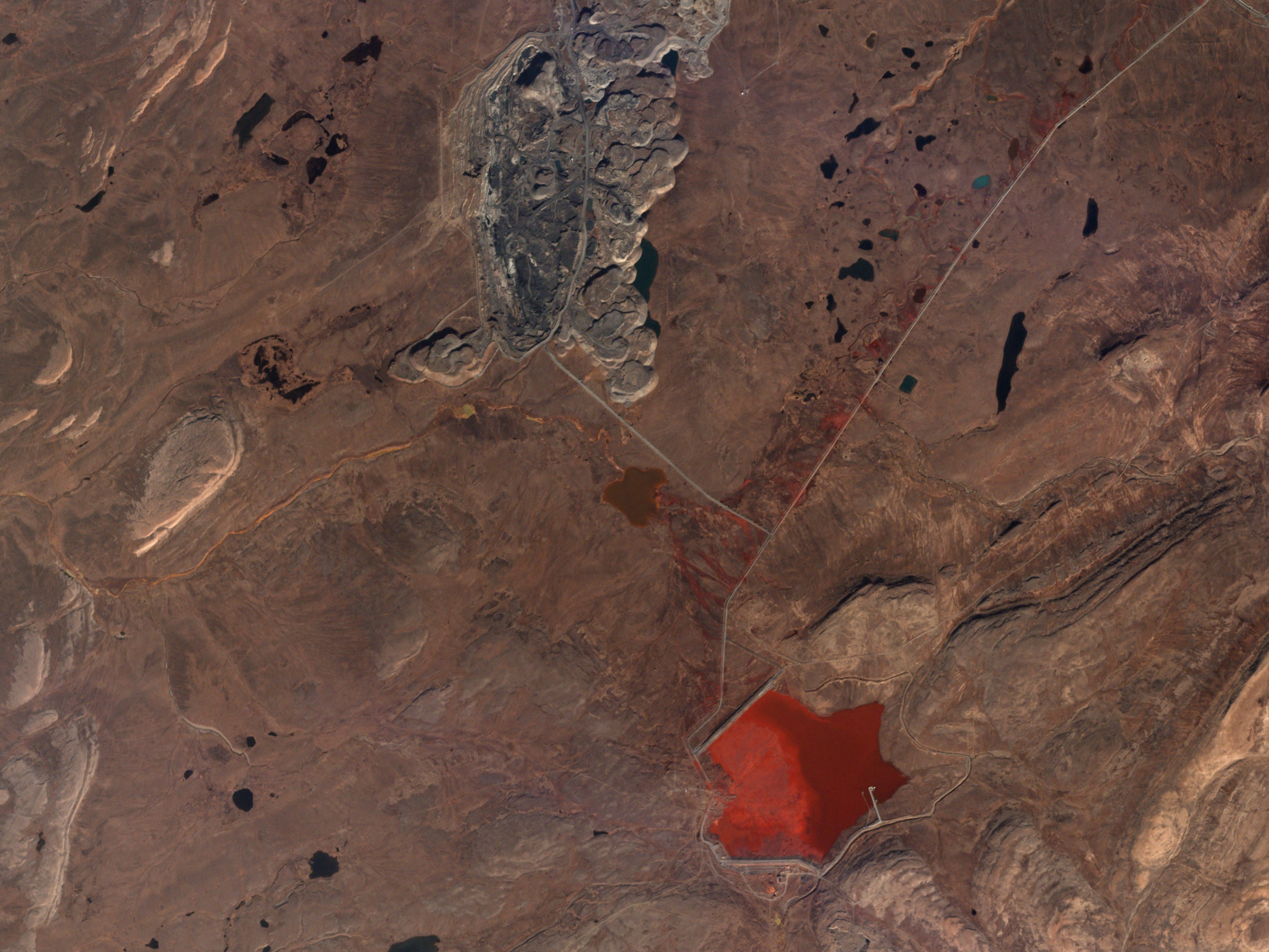 Norilsk, Russia September 10, 2016 In early September, media reports surfaced that the Daldykan River in northern Siberia had turned bright red. One possible source of the color in the river is this tailings pond near the Nadezhda Metallurgical Plant.